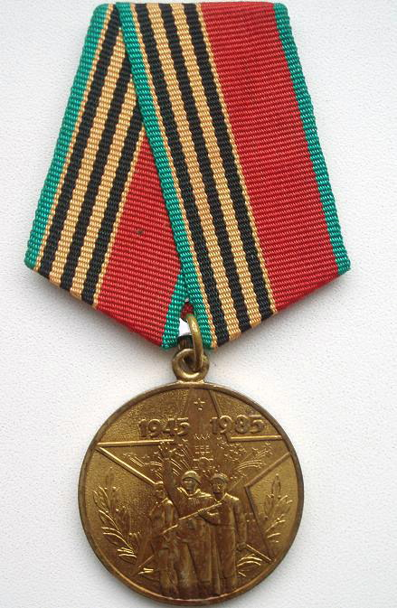 USSR Medal for 40 years of victory in great patriotic war